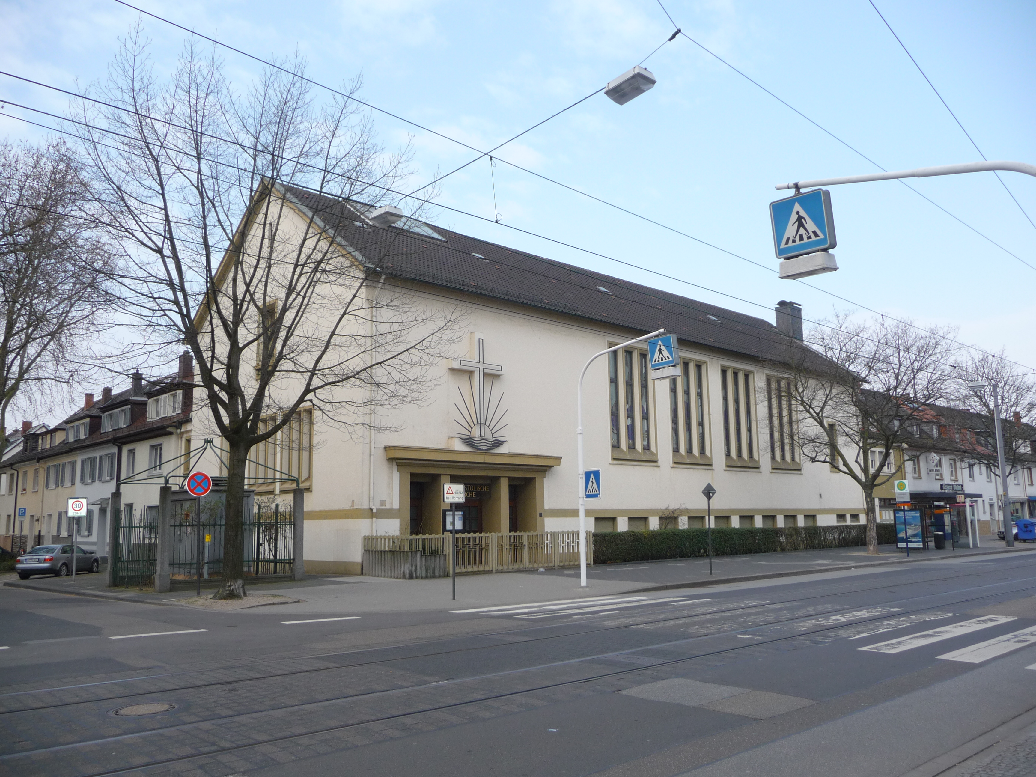 Church in Ludwigshafen, Germany